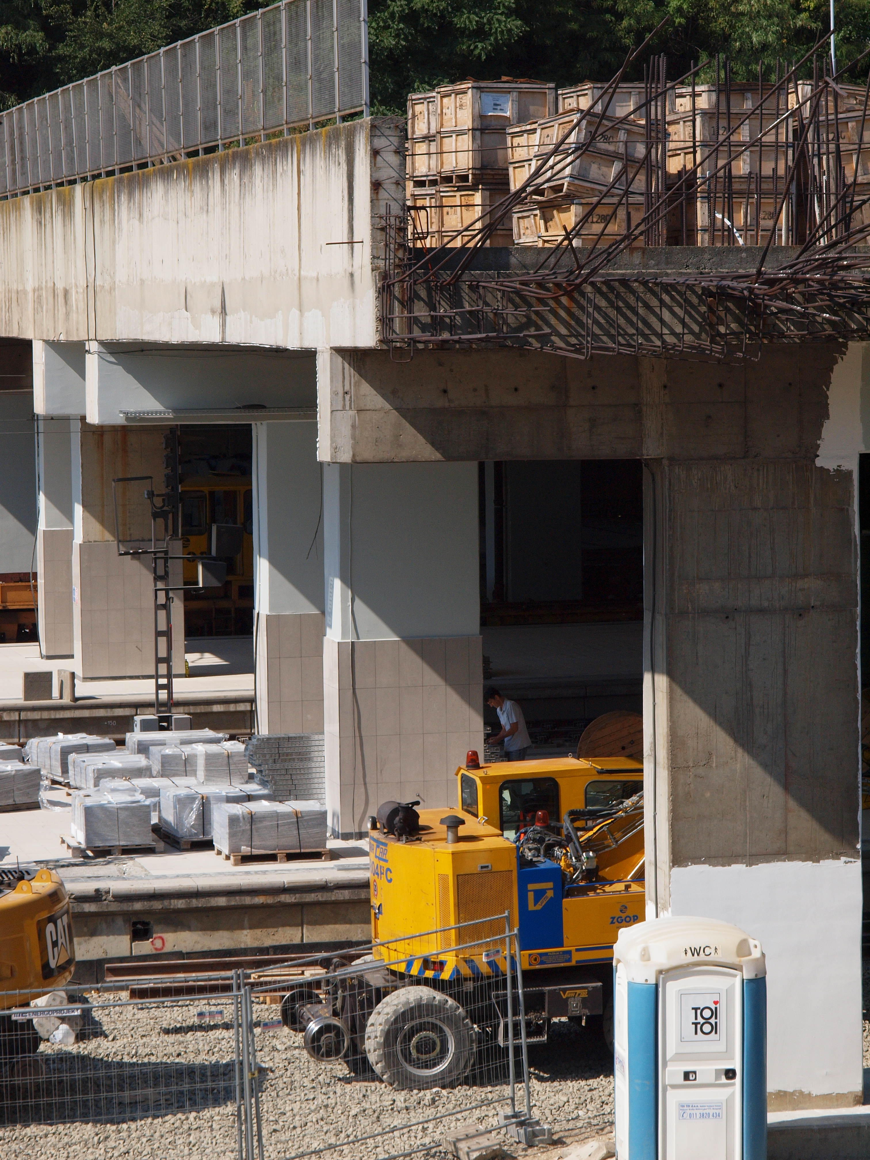 Prokop July 25 2015 13